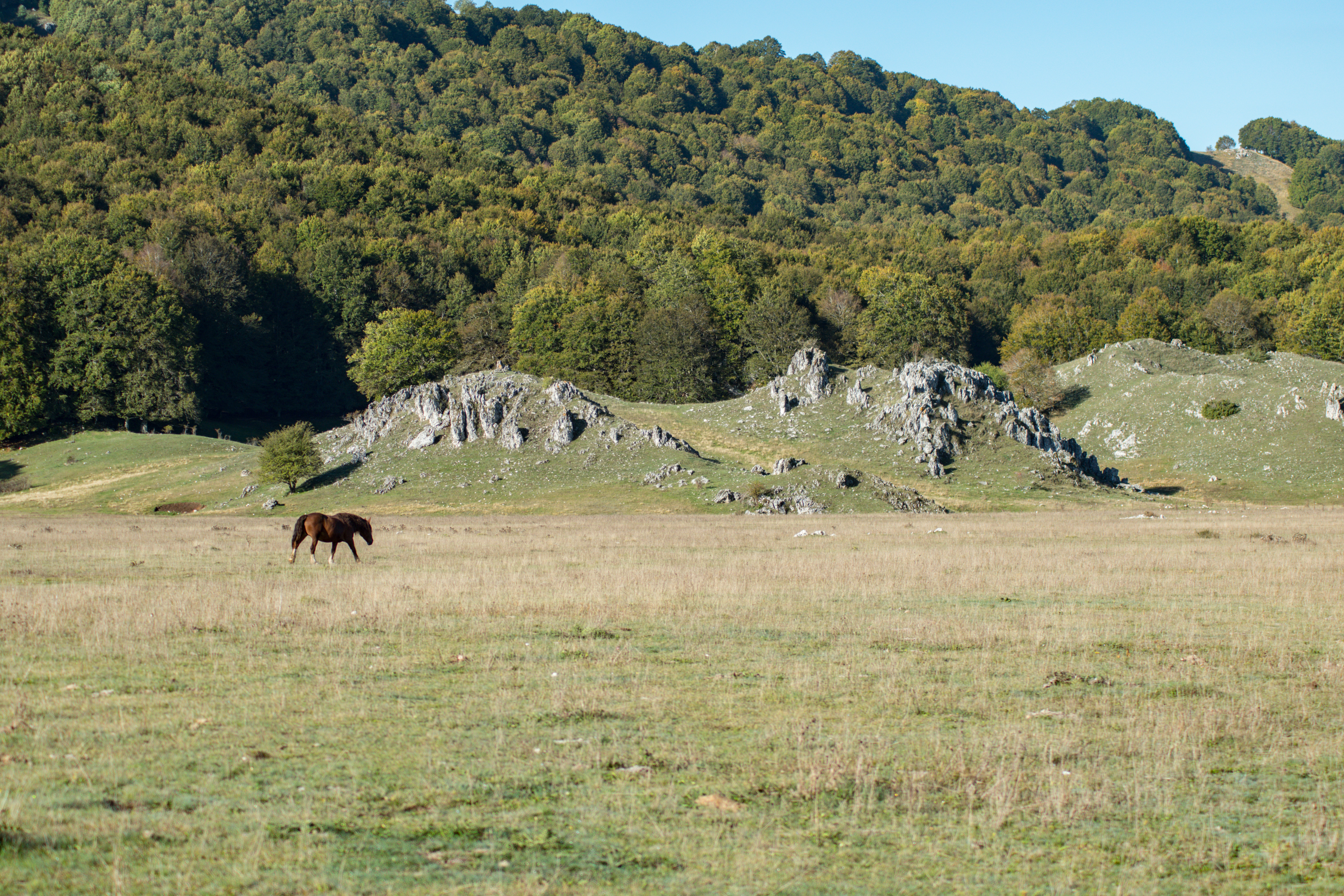 Grazing horse on the Camposecco plateau (Camerata Nuova, Rome)